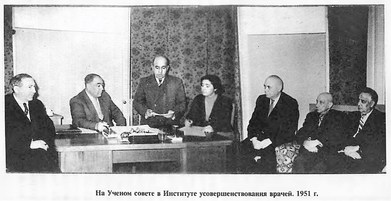 Г.К.Алиев на ученом Совете